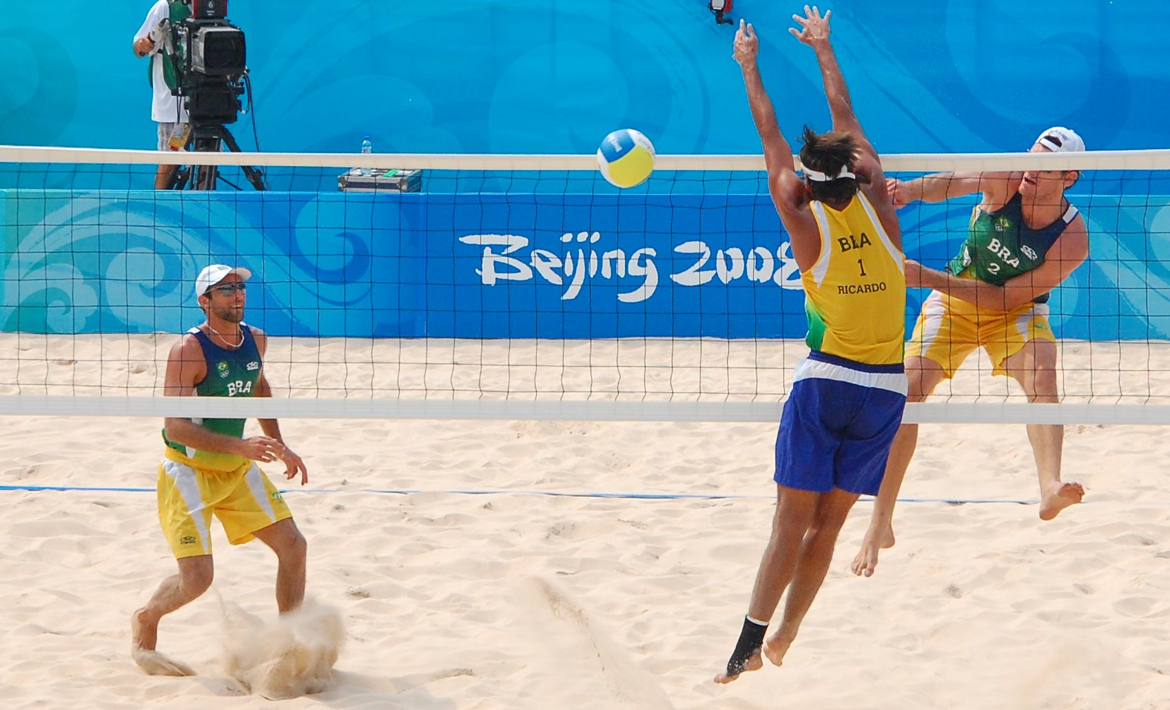 Beijing Olympics, Men's Beach volley, Semi-final: Ricardo Santos (yellow-1) v. Márcio Araújo (green-1) and Fábio Luiz Magalhães (green-2)